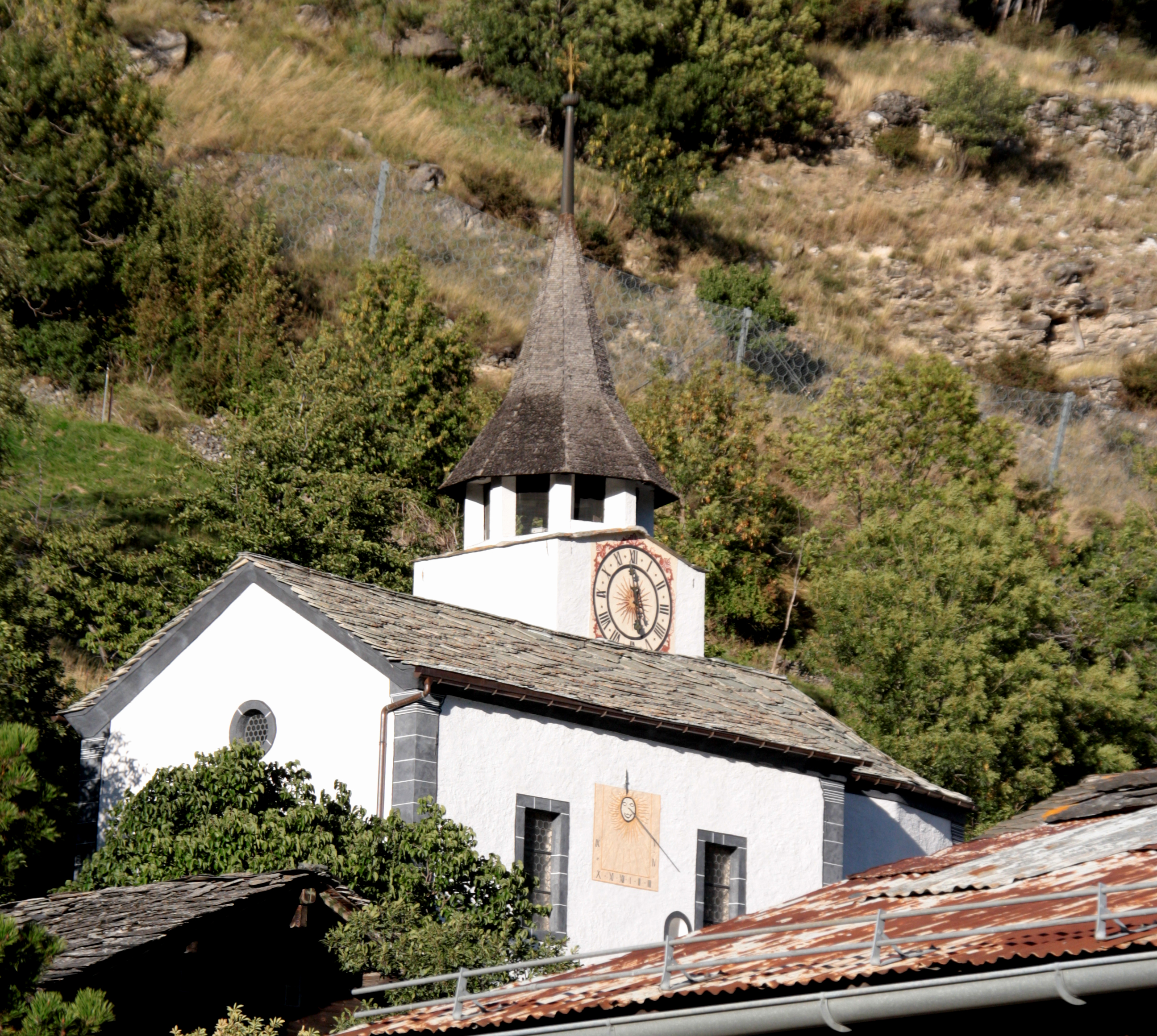 Muttergotteskapelle